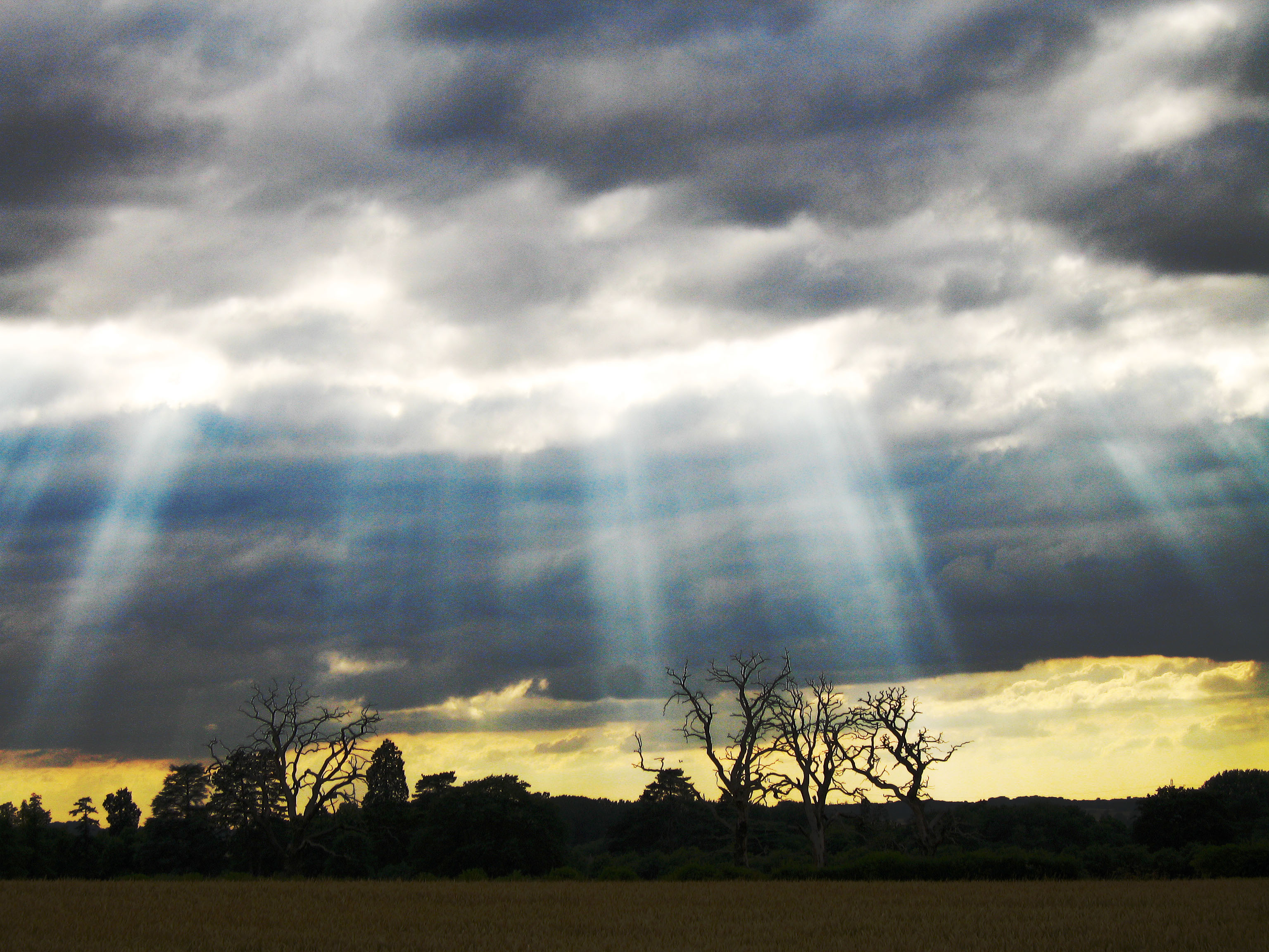 Light coming down from the sun creating interesting silhouette.